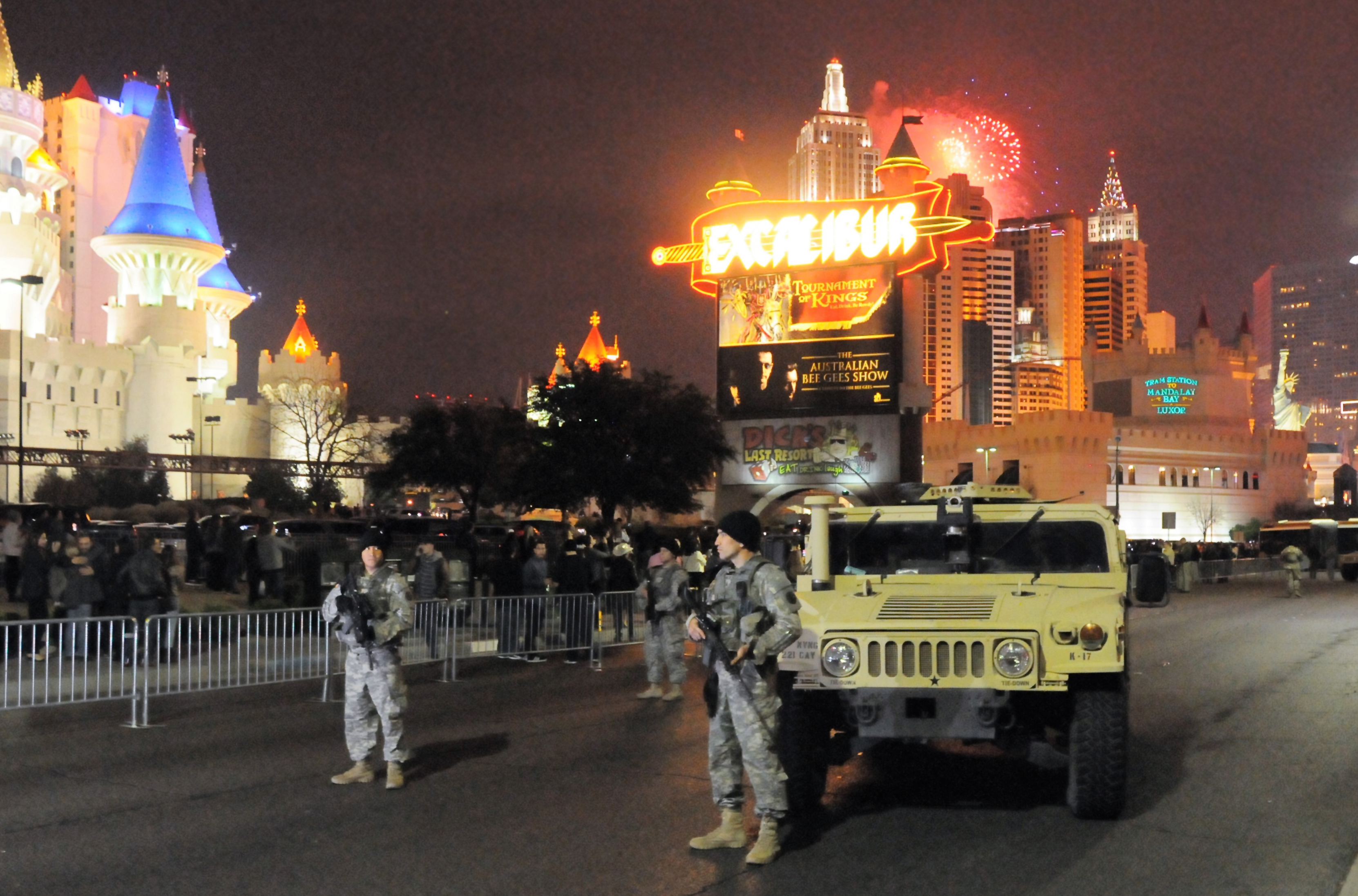 Nevada National Guard soldiers patrol the Las Vegas Strip last night as part of Operation Night Watch, an annual law enforcement mission supporting the Las Vegas Metropolitan Police Department during the annual New Year's Eve celebration.